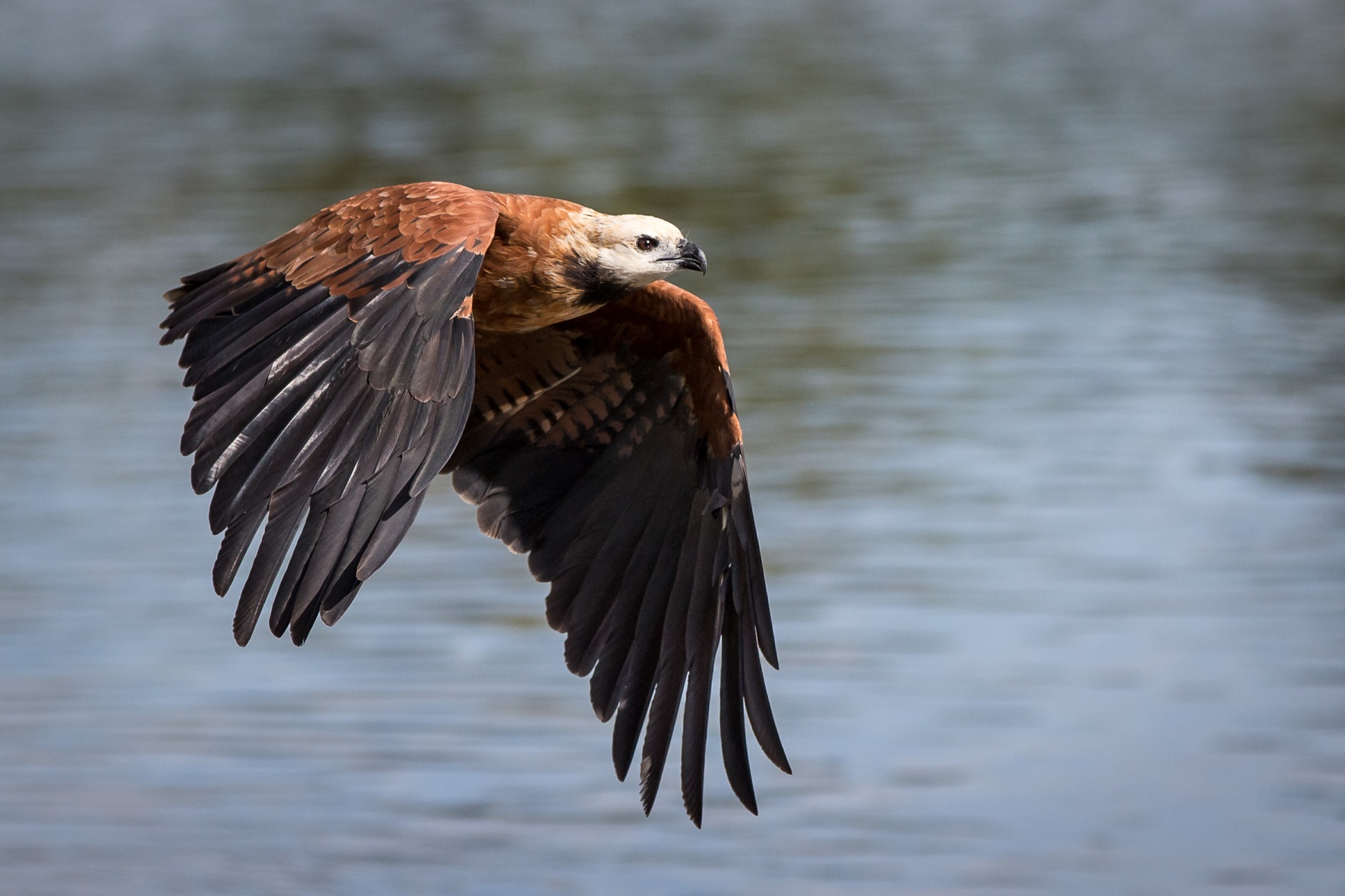 A Black-collared Hawk flying over then Miranda River, Mato Grosso do Sul, Brazil.